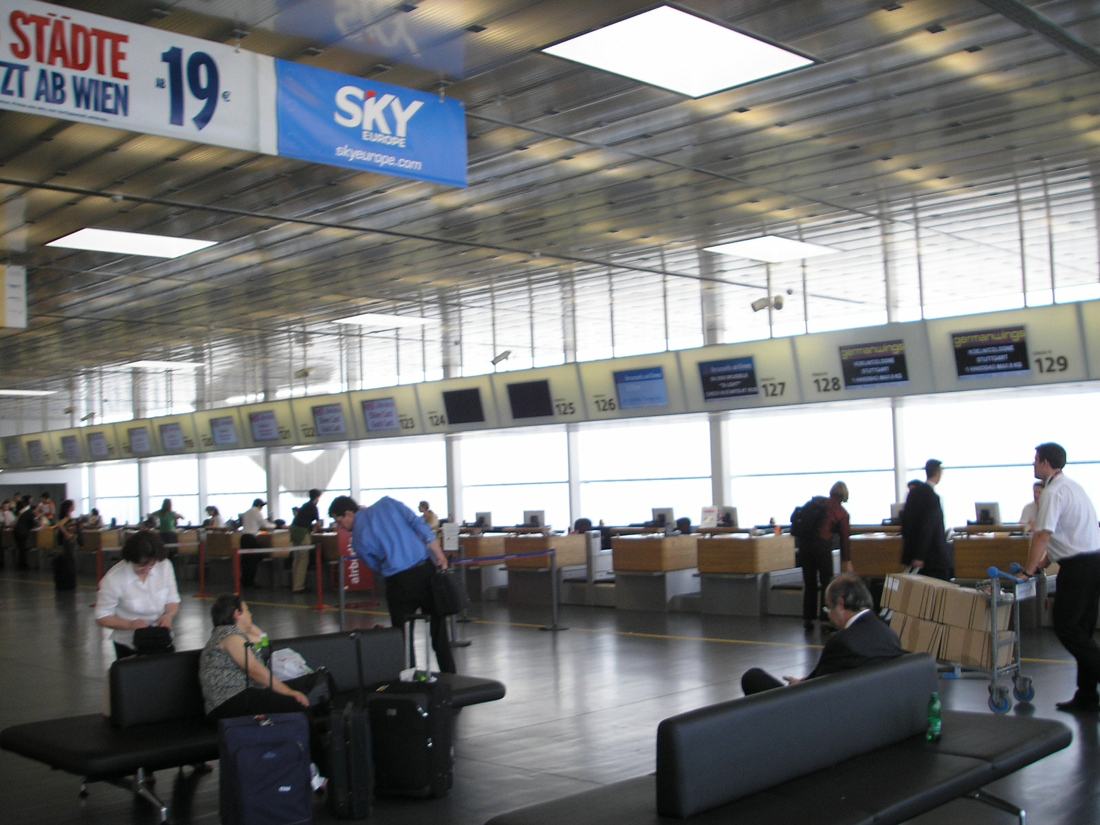 Interior view of Terminal 1A of Vienna International Airport.